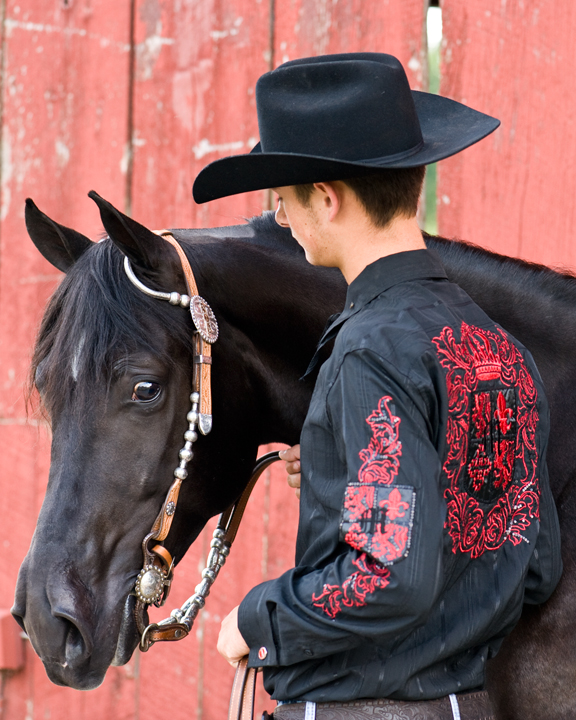 This is a image of the 2009 two time reserve Tennessee Walking Horse Western Country Pleasure World Champion.